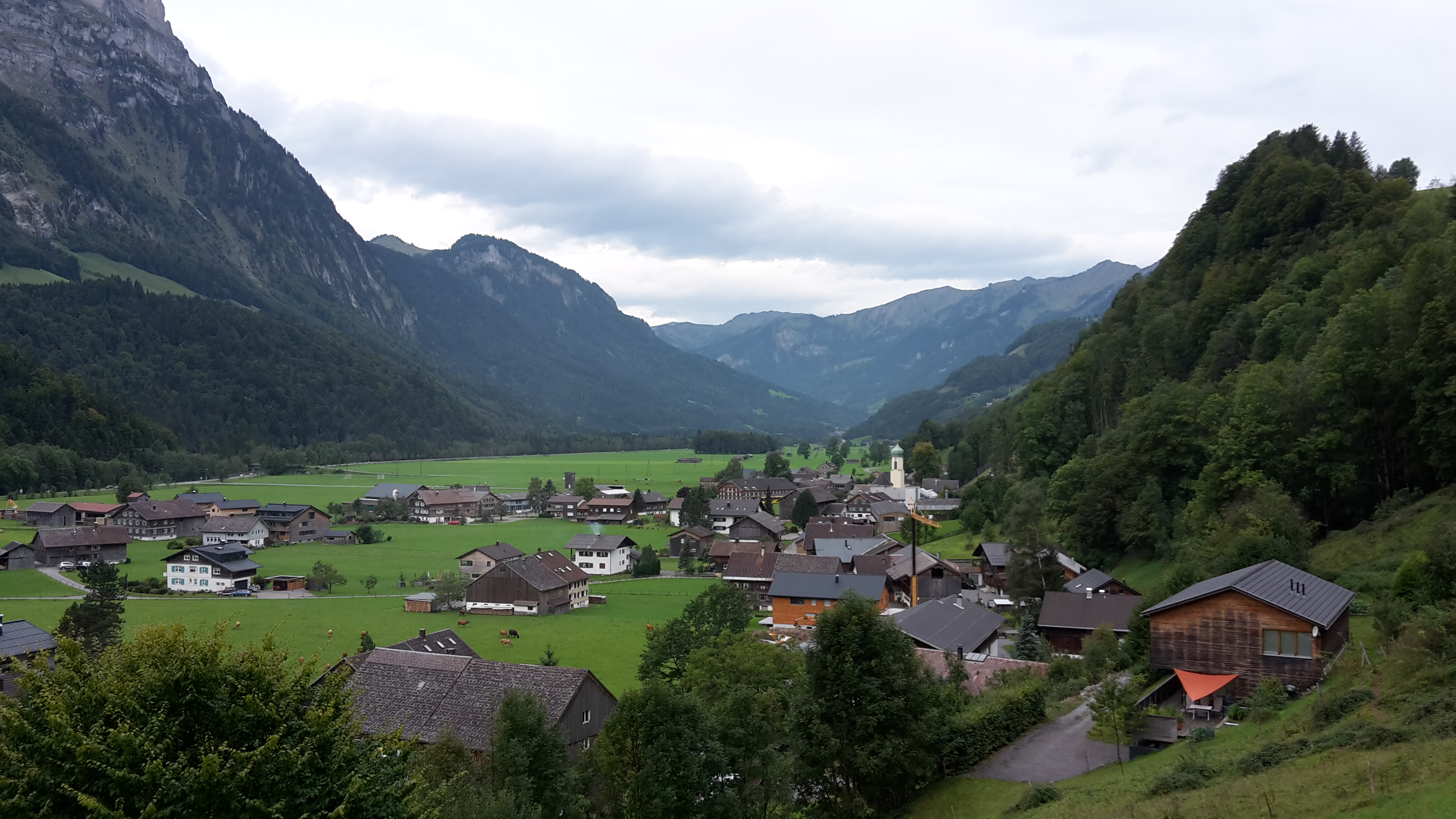 Village Schnepfau in Vorarlberg, Austria. View from the road to Schnepfegg to the village Schnepfau.